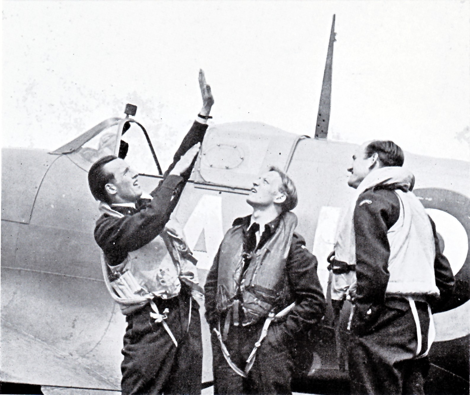 Norwegian air force men in the United Kingdom during World War II. Werner Christie instructing Erik Hagen and Bjørn Ræder.